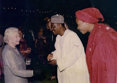 Dr. Saidu Samaila Sambawa welcoming Her Royal Majesty Queen Elizabeth II along with Hajia Adama Samaila Samabawa (spouse).